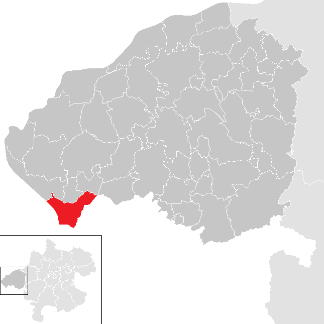 district Braunau am Inn